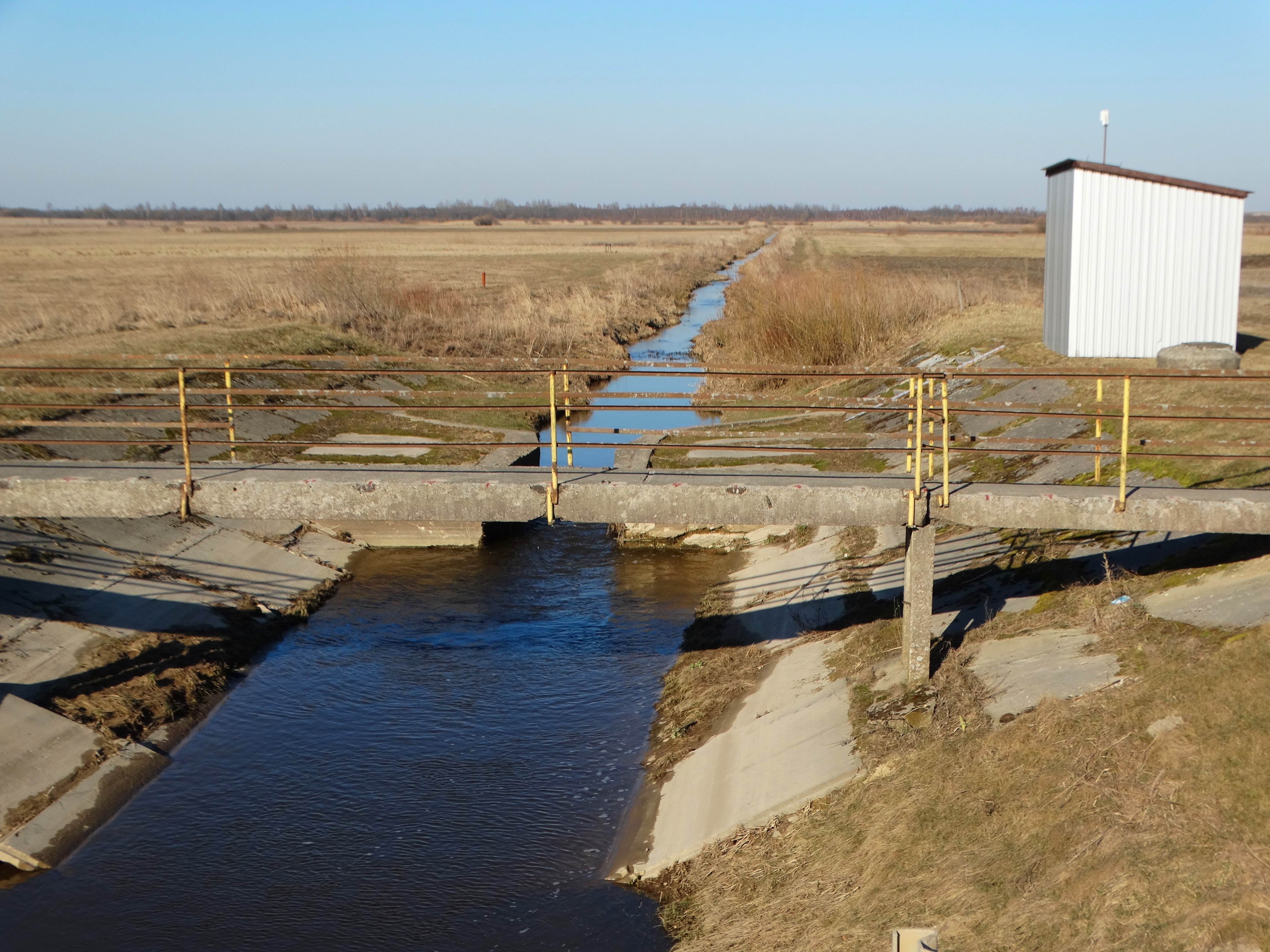 Aunuva River, tributary of Venta River, Šiauliai district, Lithuania